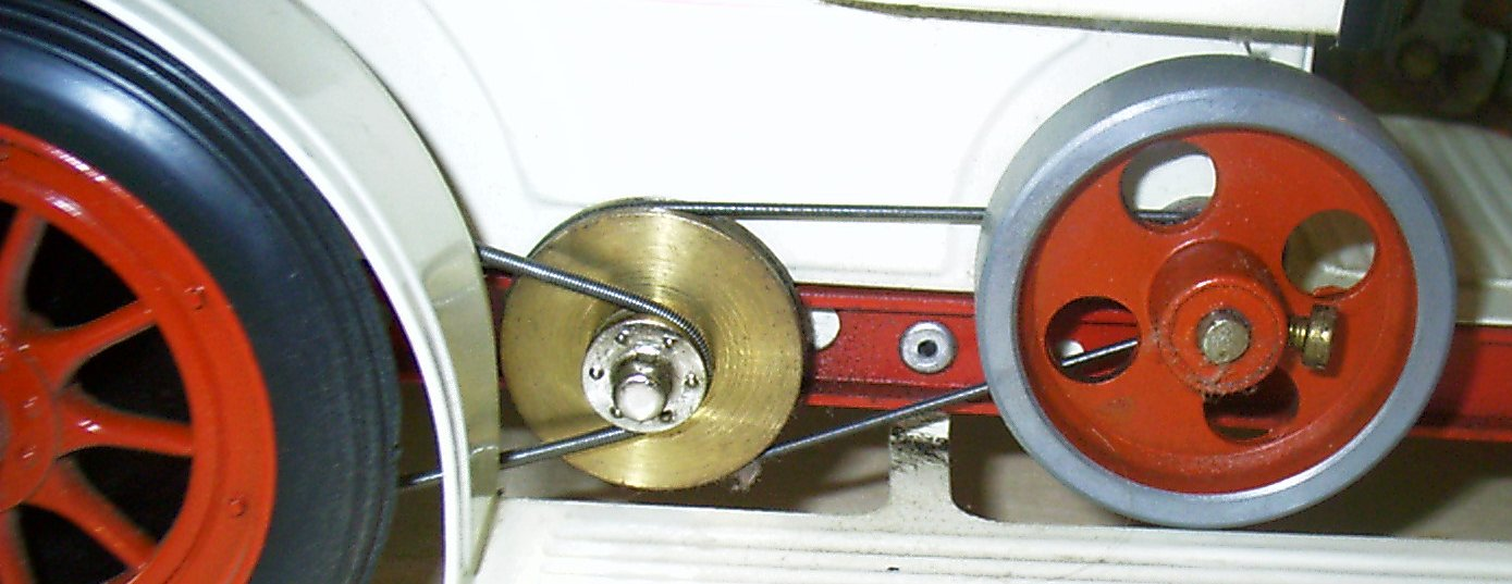 A two stage speed reduction transmission using steel helical spring belts on a toy steam vehicle.